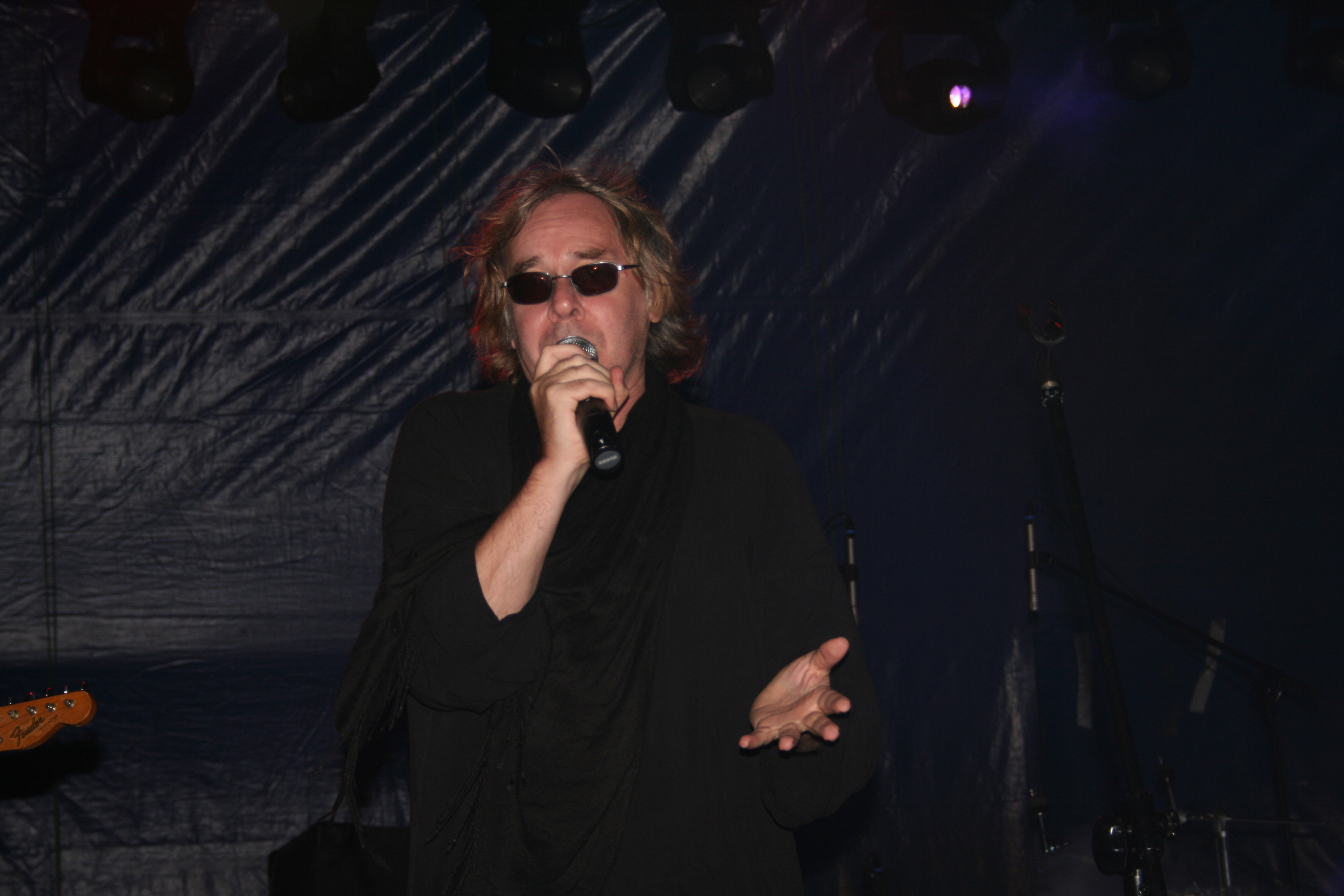 The Legendary Pink Dots, Castle Party 2007, Bolków